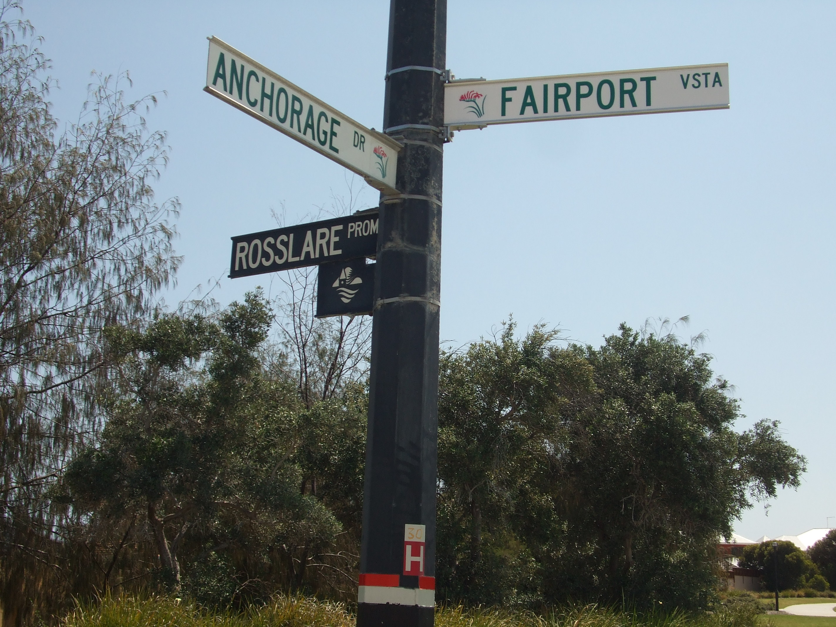 An example of different street signs in Mindarie, WA. The blue Rosslare Promenade sign is a unique design by Fini/Mirvac group, the developers of northern Mindarie, and features their Mindarie Keys logo. The other two signs are standard City of Wanneroo council signs found in the rest of Mindarie.